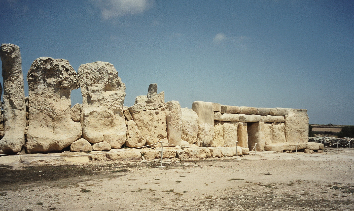 Hagar Qim, Malta